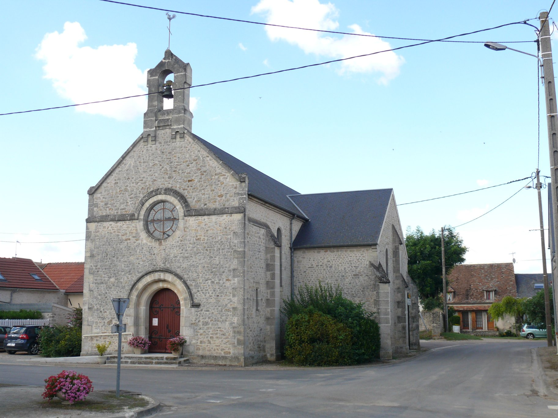 Saint-John-the-Baptist's church of Rouvres-Saint-Jean (Loiret, Centre-Val de Loire, France).